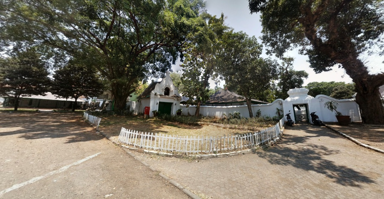 Gedong Gajah Mungkur